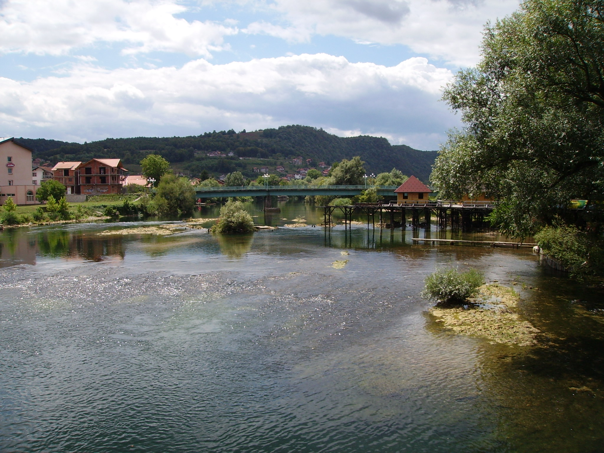 River Una in Bosanska Krupa, Western Bosnia.